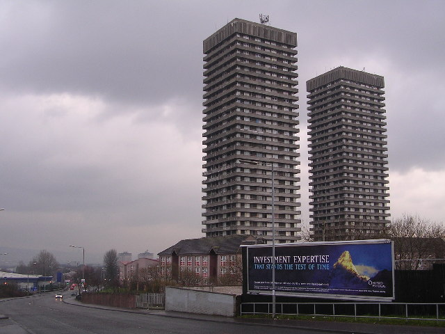 Camlachie tower blocks Original description: Camlachie Tower Blocks Looking past Ama Dablam billboard down Millerston Street